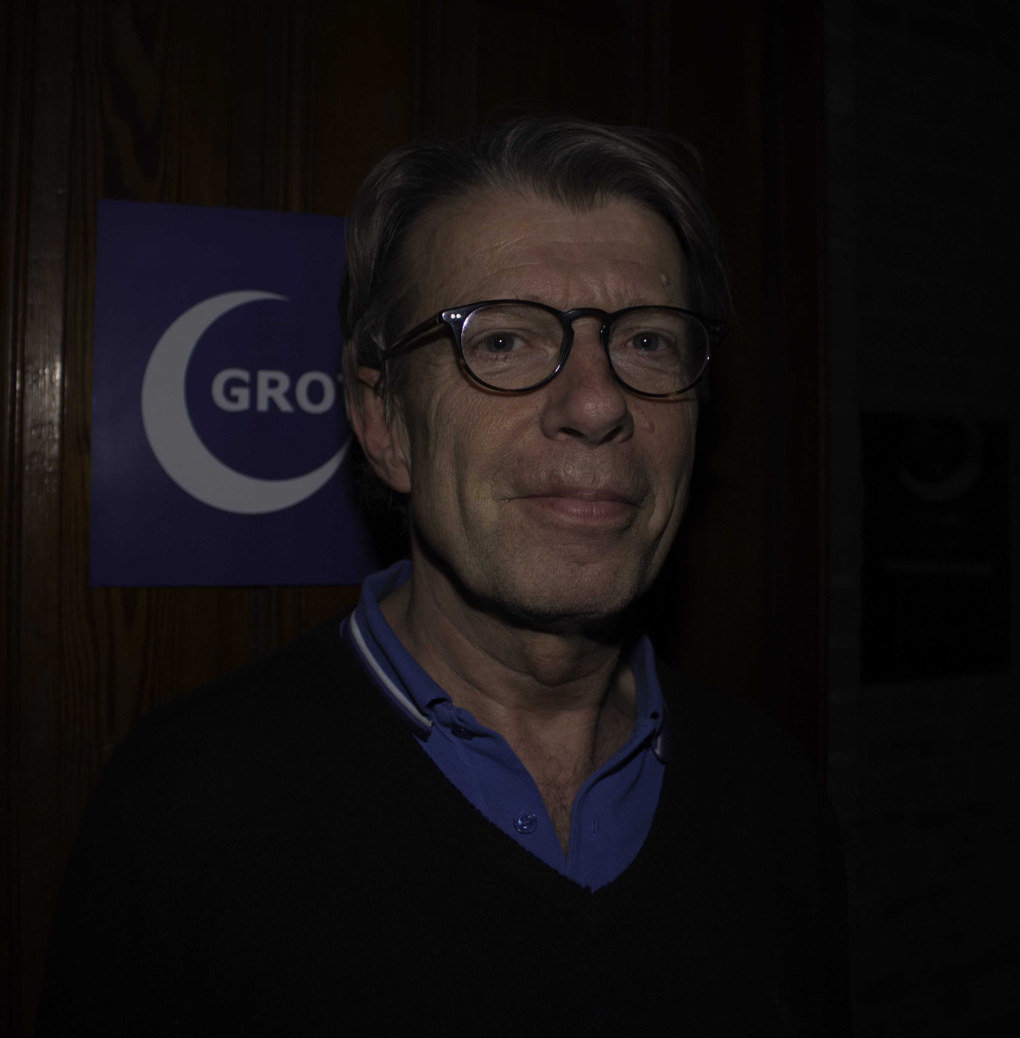 Peter van Heemst at Arminius' Debatnacht 2014